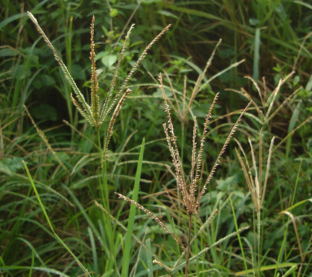 Eleusine indica, close-up, (takataka) a stubborn grass along a Tonga n roadside and everywhere else